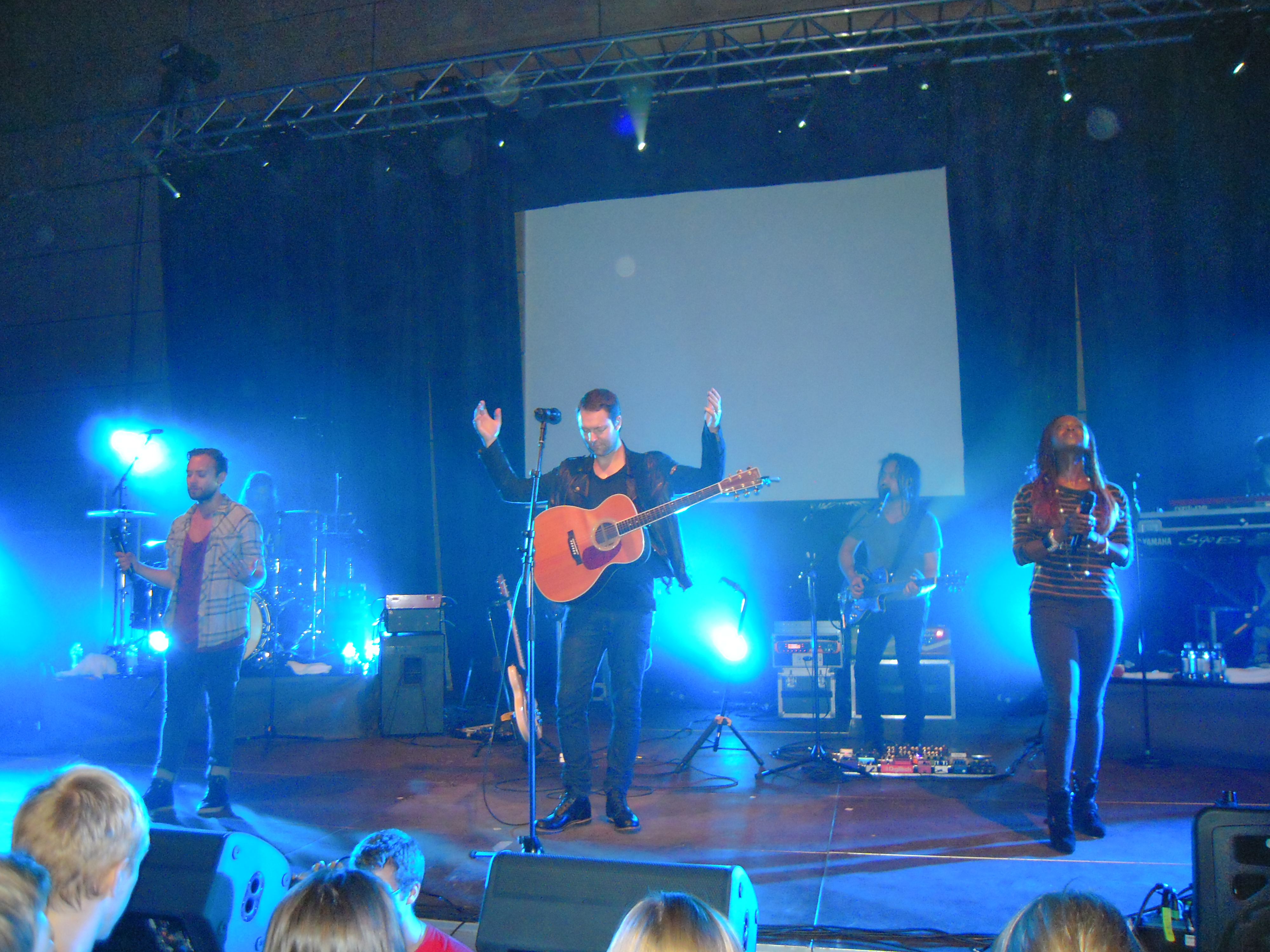 Hillsong Live Australia on the God Is Able Tour, Zagreb.